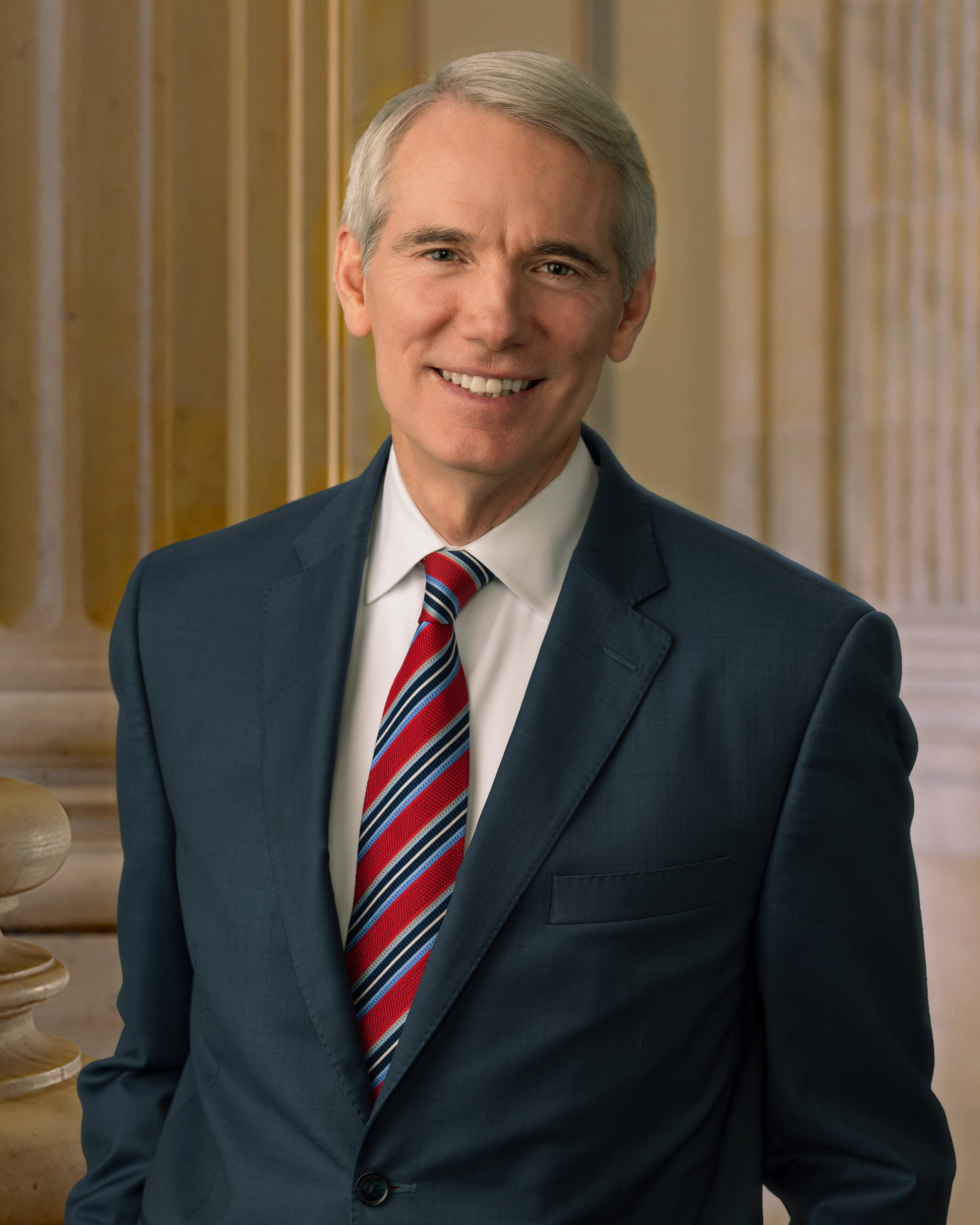 US Senator Rob Portman (R-OH) poses for his 2018 official portrait.